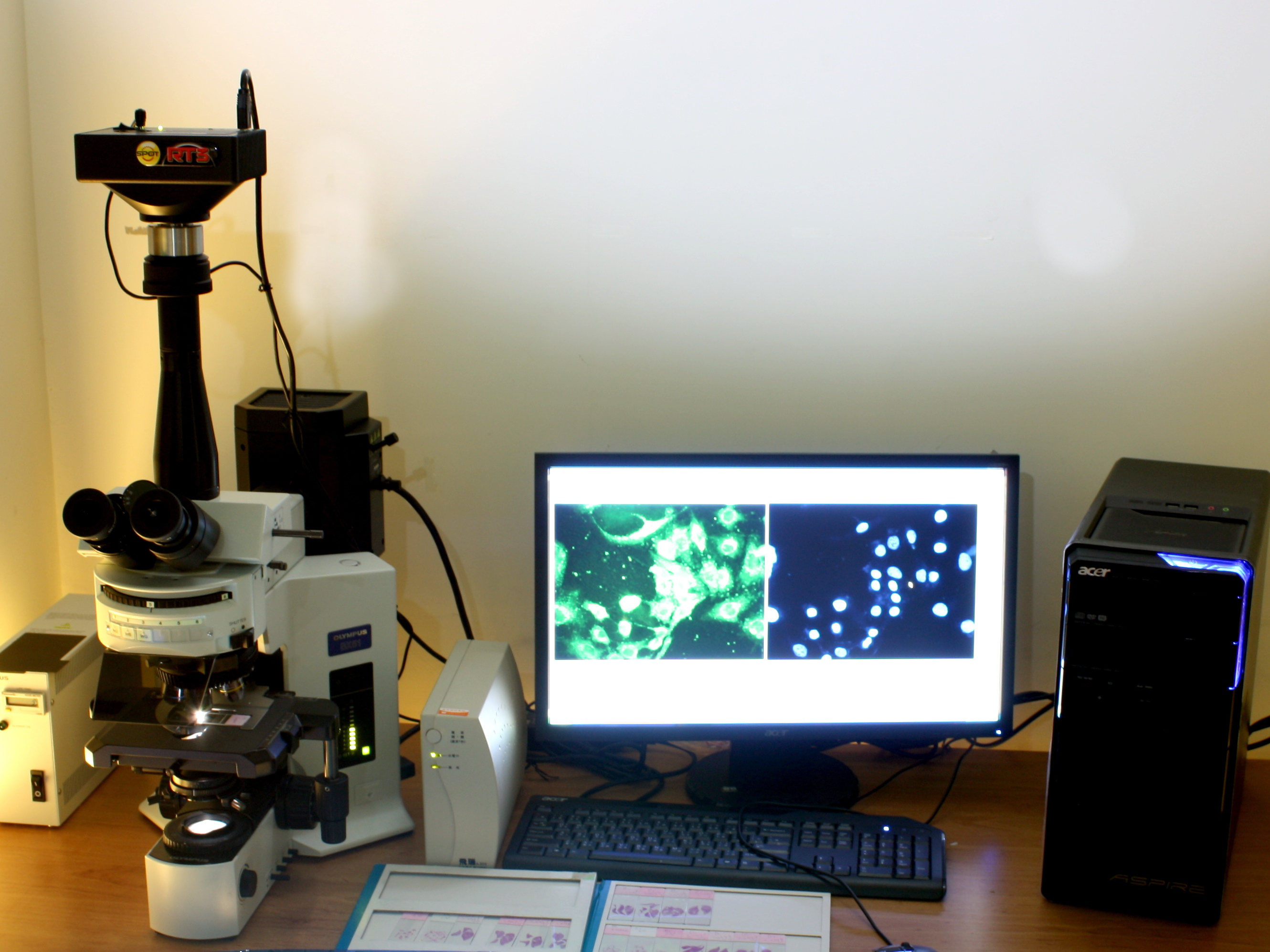 Olympus Research microscope BX51 with fluorescence system and image capturing system.